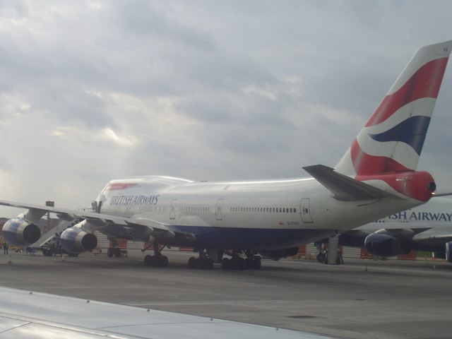 British Airways Boeing 747